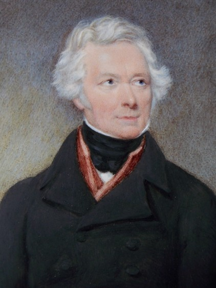 Henri Jean-Baptiste Victoire Fradelle by Moses Haughton the younger (1773–1849) DescriptionEnglish engraver and painterDate of birth/death 7 July 1773 26 June 1849Location of birth Wednesbury Work location LondonAuthority control : Q6915812 VIAF: 74052686 ISNI: 0000 0003 6105 8022 ULAN: 500003710 LCCN: no2007030579 Oxford Dict.: 12615 WorldCat creator QS:P170,Q6915812 , 1848